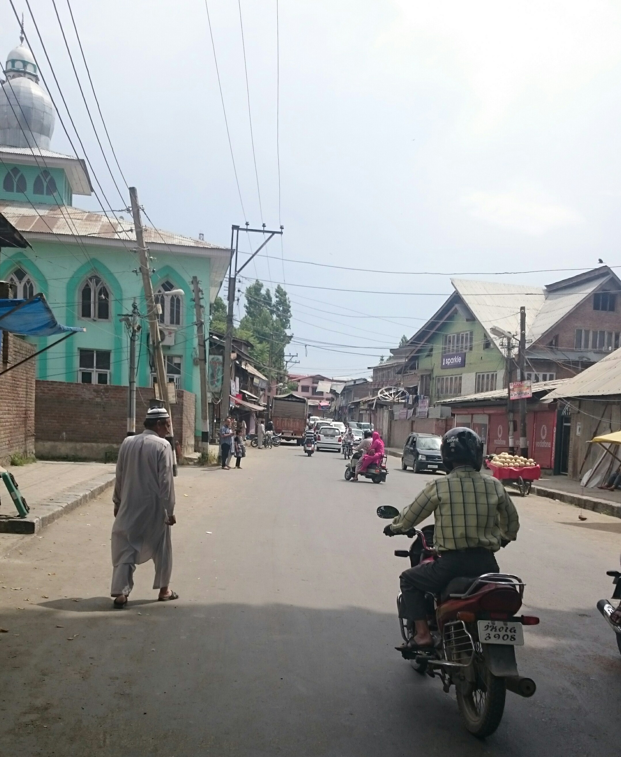 A huge rush in Lal Bazar.